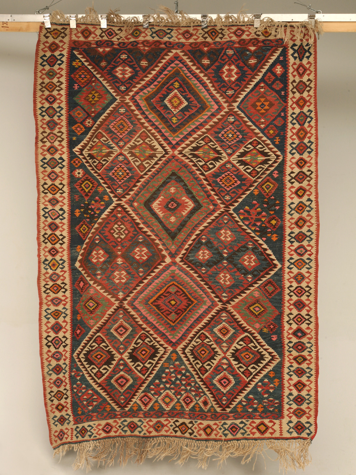 Vintage Turkish Kilim Geometric Patterned Rug